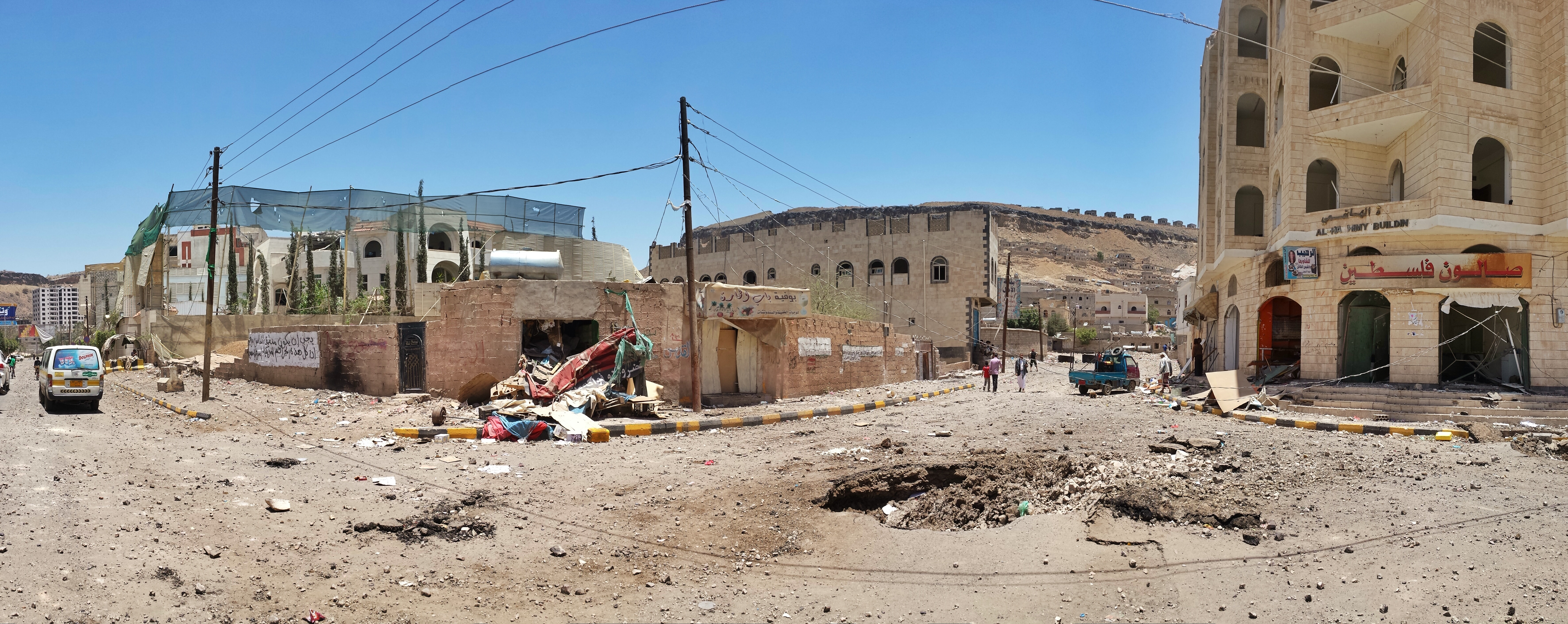 Widespread destruction in the residential neighborhoods near mountain Attan which suffered a blow air from warplanes from Operation Decisive Storm.